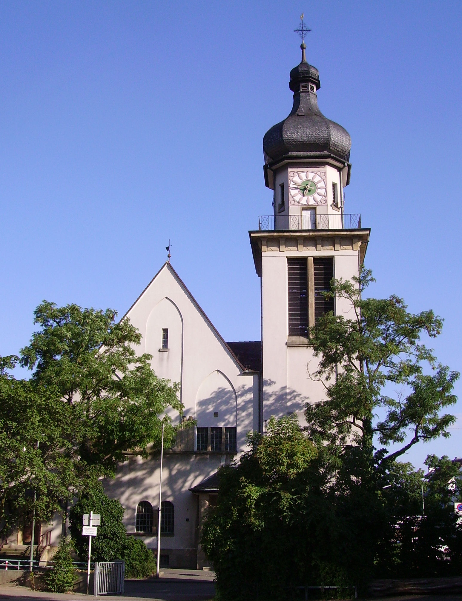 Ludwigshafen-Edigheim, Germany